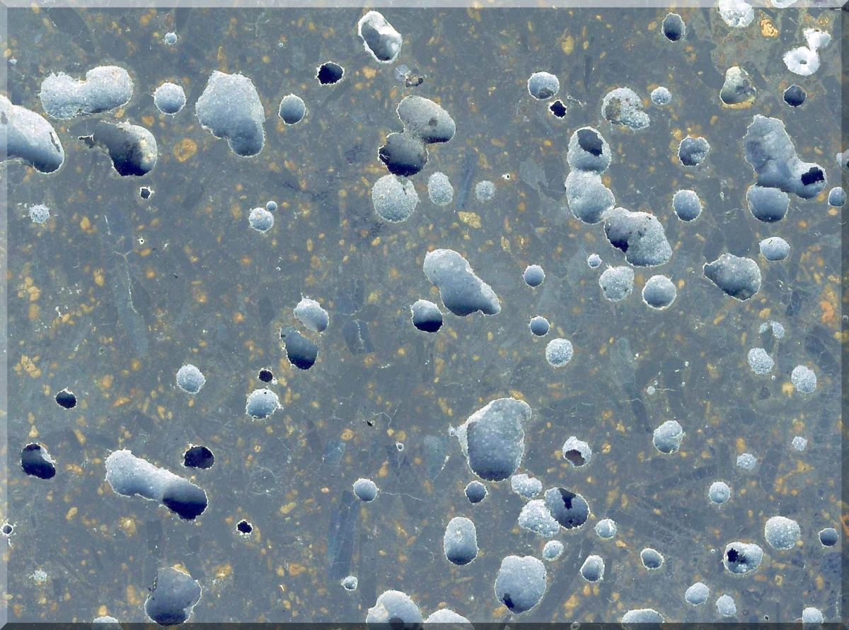 Polished limburgite sample from Kaiserstuhl, Germany (Limburg quarry). Type locality of Limburgite. Black elongated phenocrysts belong to pyroxene augite. Orange phenocrysts are weathered olivine. Width of the sample is 8 cm.